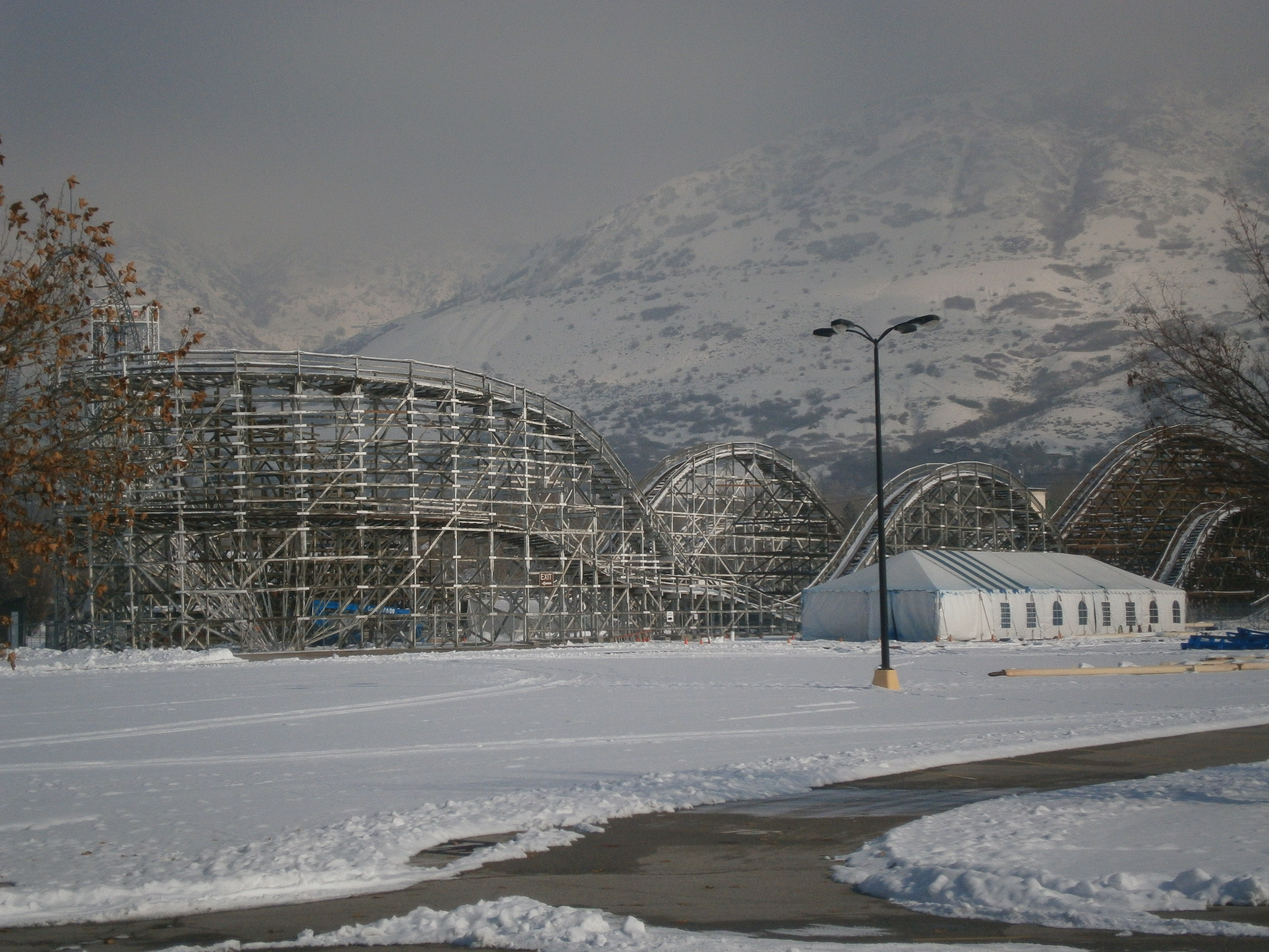 The Roller Coaster, a historic roller coaster at Lagoon Amusement Park in Farmington, Utah, United States.